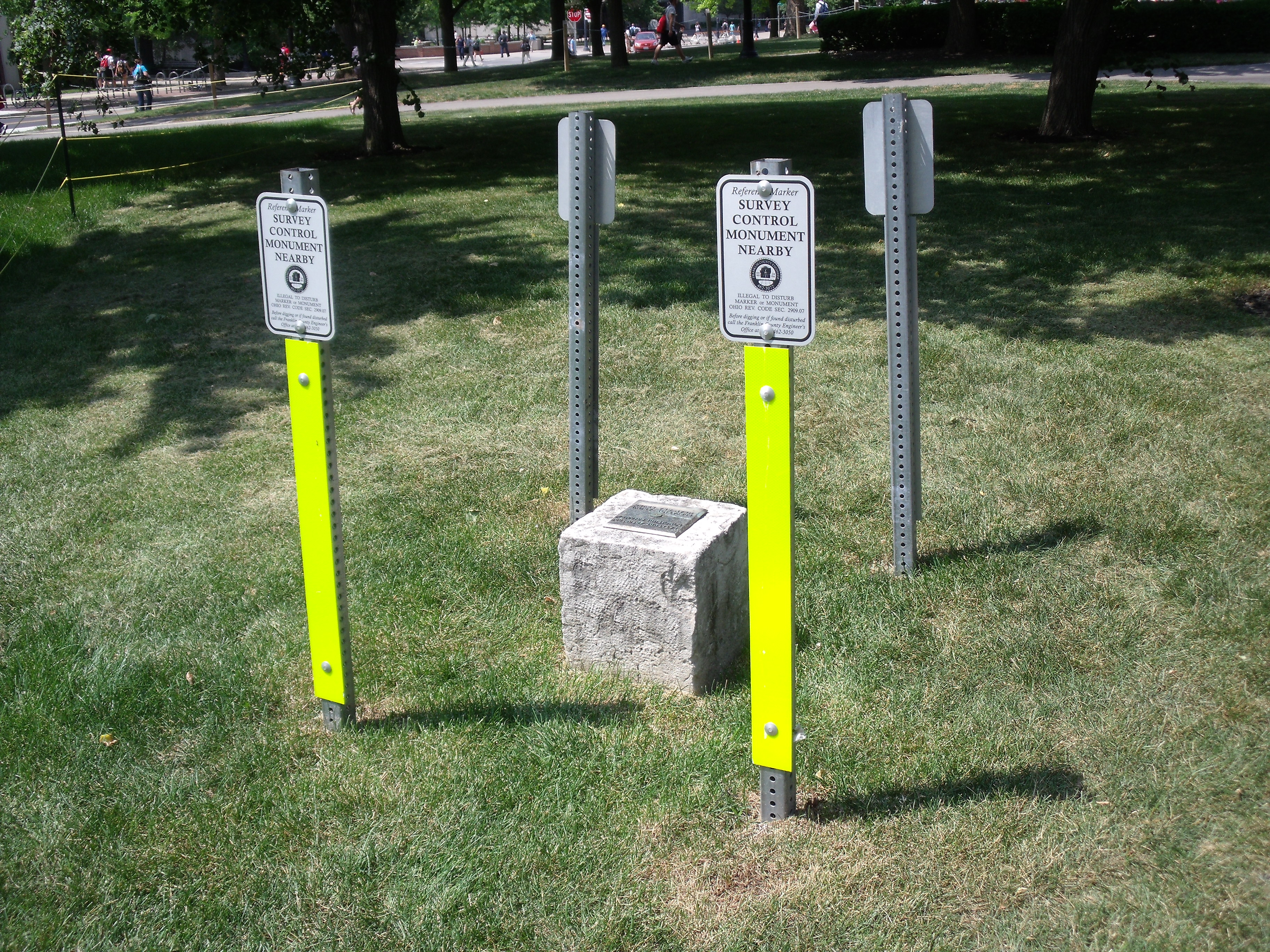 40 degrees North at the Ohio State University